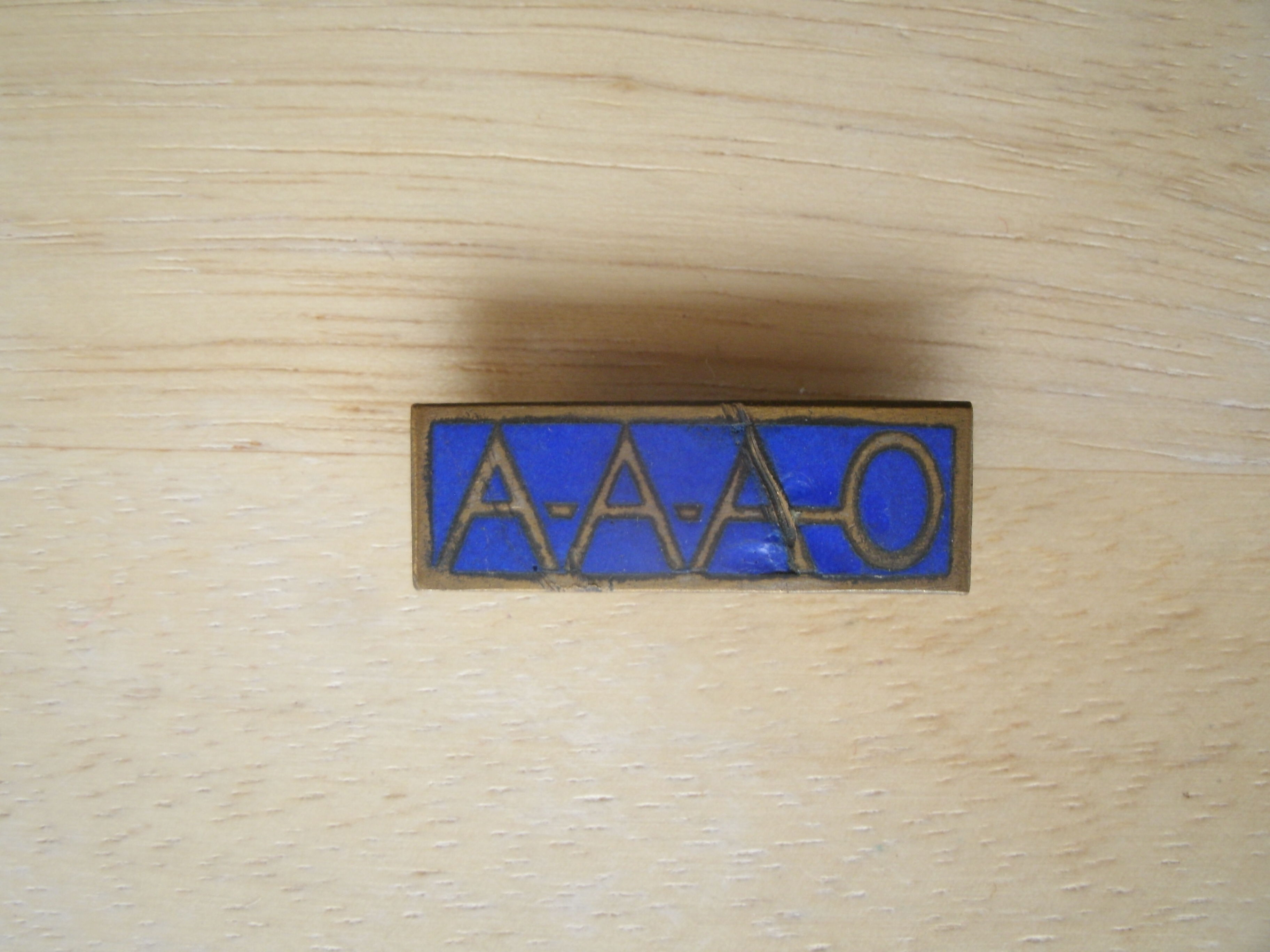 Actual AAA-O bar warn on WW II uniforms of the 9th Infantry Division